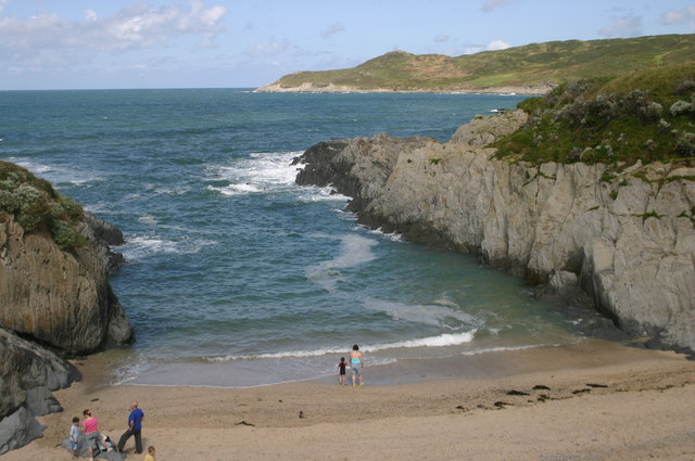 Barricane Beach Barricane Beach between Woolacombe and Mortehoe